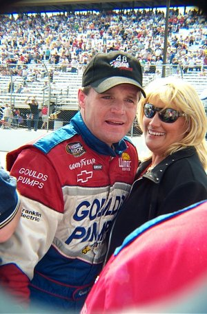 Kenny Wallace and his Wife Kim, taken in 2001 at NHIS. Courtesy of Dale Johnson